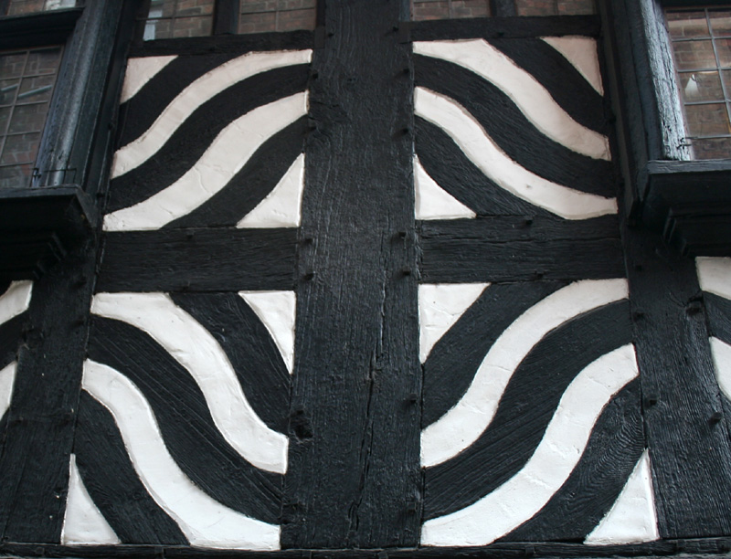 Decorative panel from 46 High Street, Nantwich, Cheshire